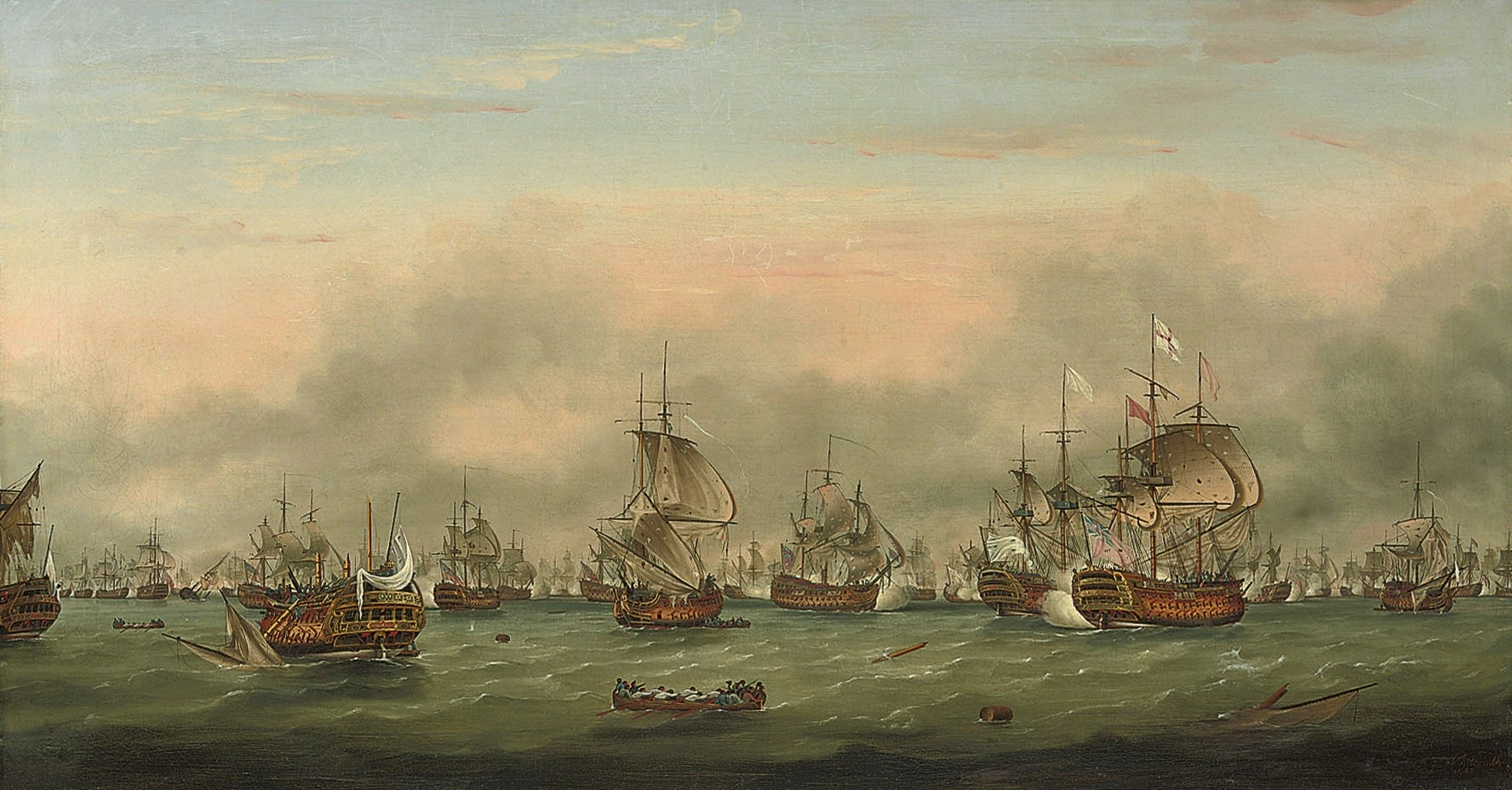 The merchantman „Duke of Lancaster“ flying her recognition flags as she arrives in Table Bay, Cape Town, with another merchantman „Royal Saxon“ outward-bound off her starboard bow